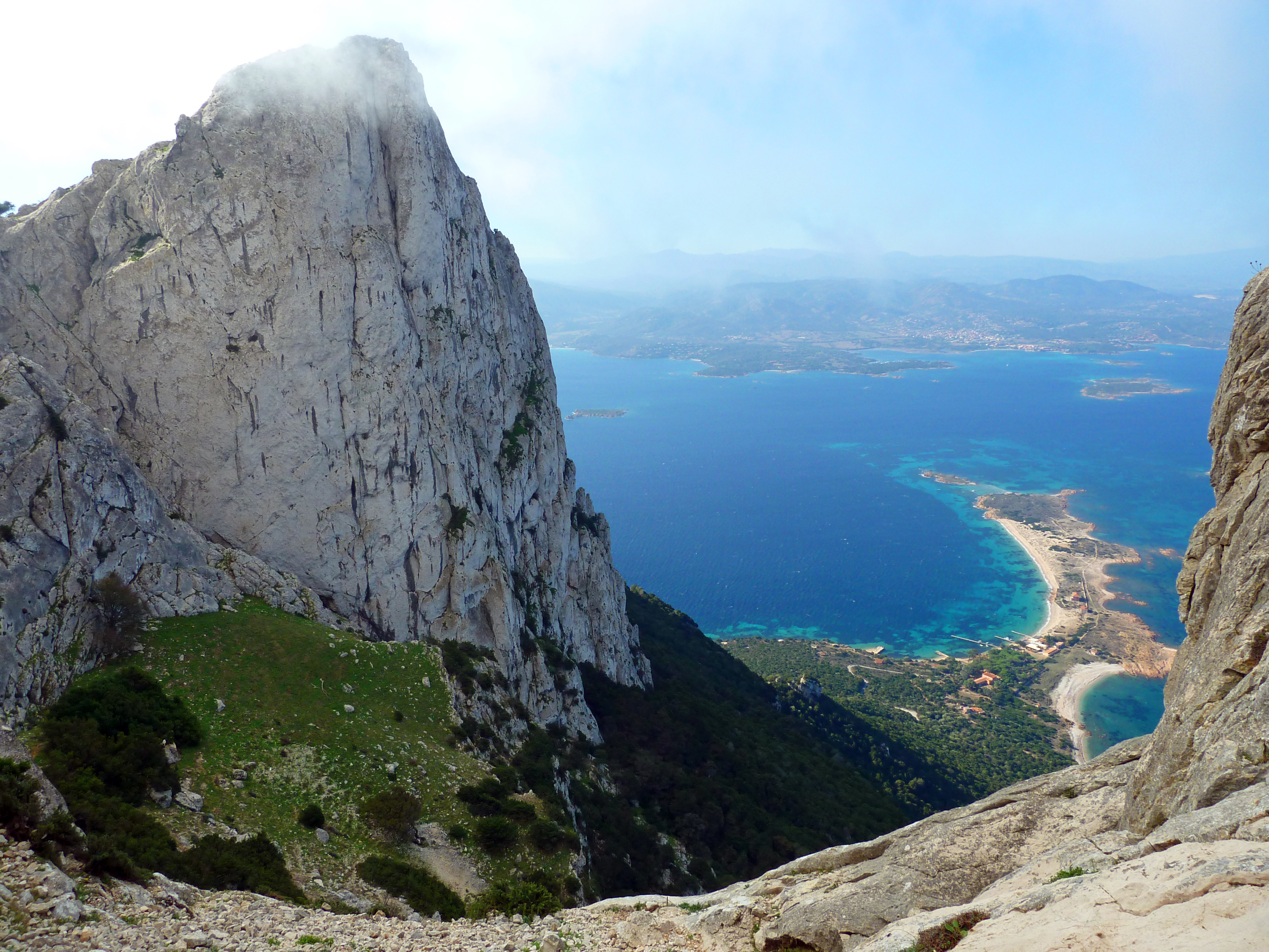 Tavolara, Sardinia, from the top (Punta Cannone)